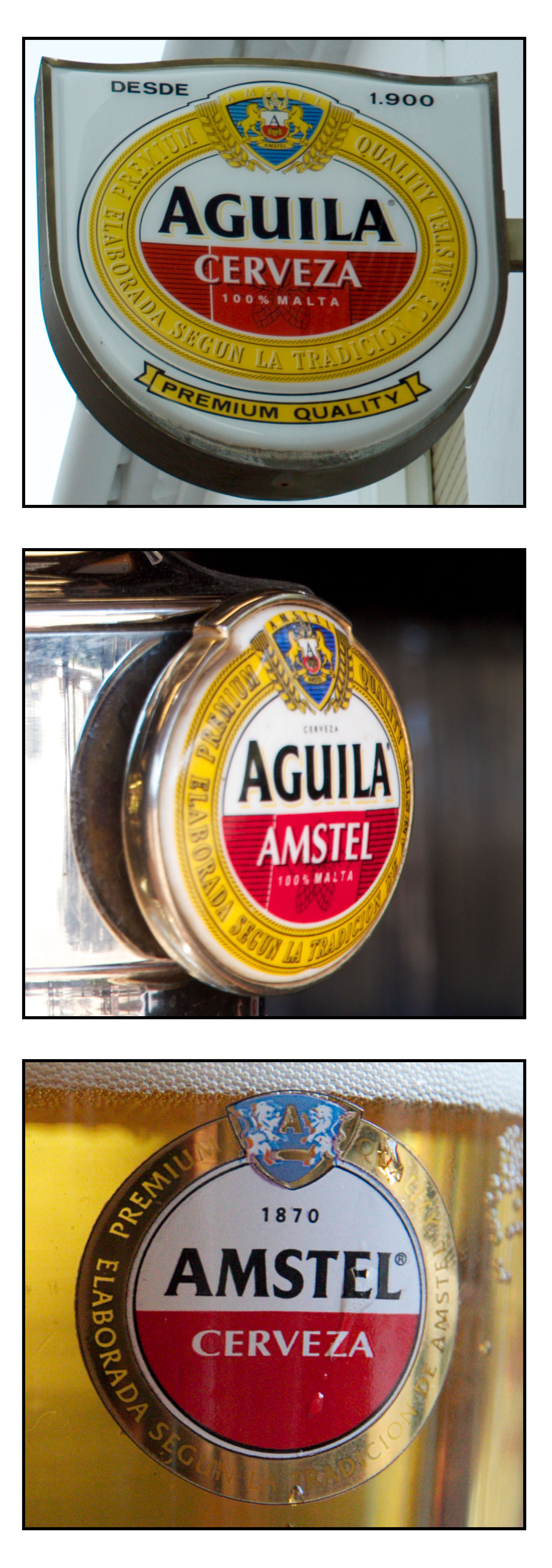 Three stages in the rebranding of the Spanish beer brand El Águila into Amstel. Amstel-brand owner Heineken acquired the El Águila brewery in 1984. Rebranding started in the 1990s.